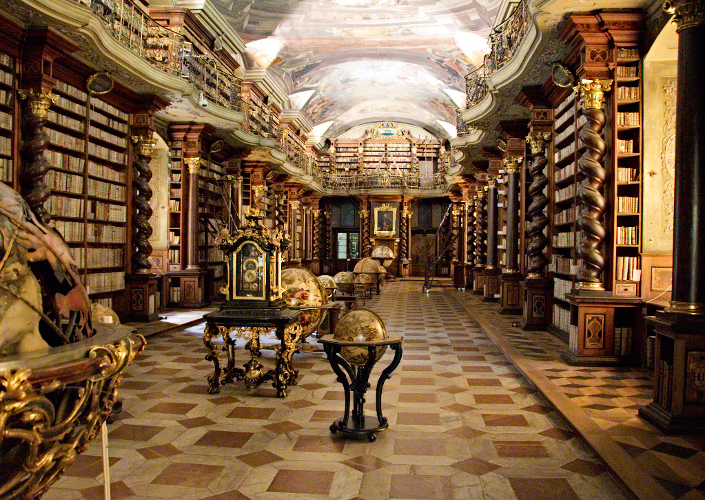 Baroque library hall of the former Jesuit College in the Old Town of Prague. It was built 1722 by Kilian Ignatz Dientzenhofer and it is decorated with frescoes on the topic of Science and art. It was painted in 1727 by Josef Hiebel.